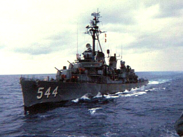 The U.S. Navy destroyer USS Boyd (DD-544) underway at sea, circa in the 1960s.